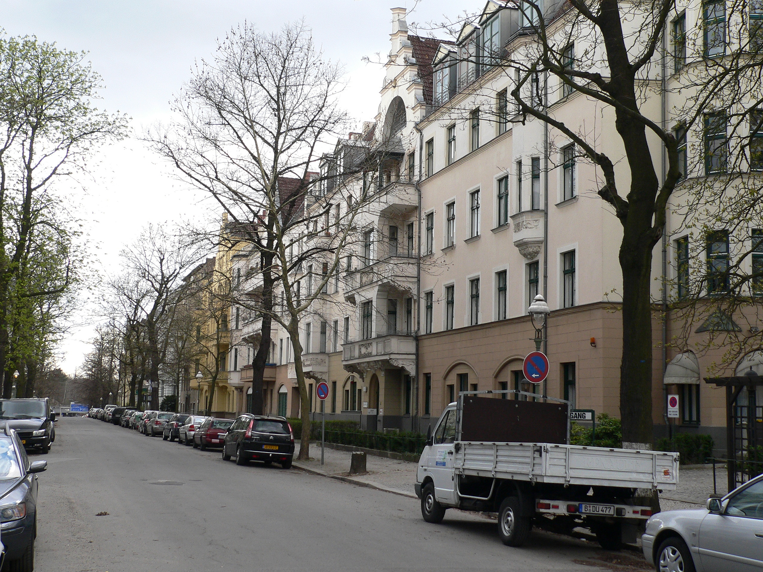 Berlin-Halensee Kronprinzendamm